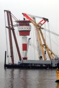 Dismantling of lighthouse "Grosser Vogelsand" in the estuary of river Elbe/North Sea/Germany on 16 December 2008 by floating crane ENAK.